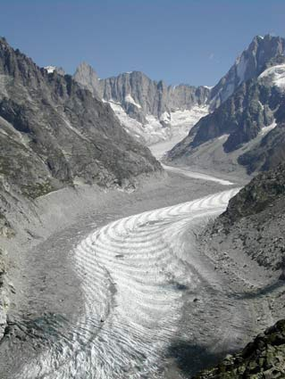 Sea of ice (near Chamonix, France)